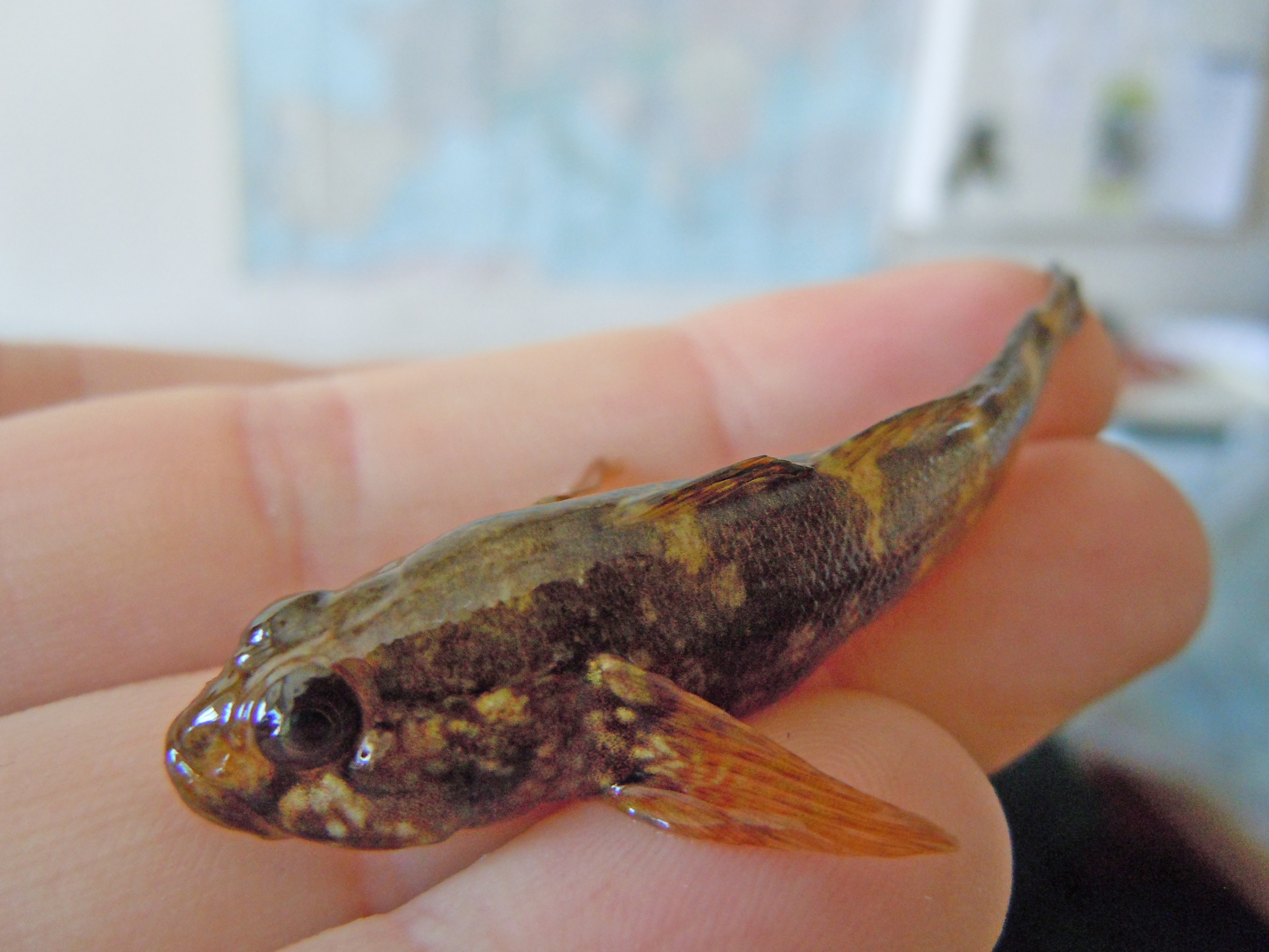 Ratan goby (Ponticola ratan) from the Gulf of Odessa, Ukraine